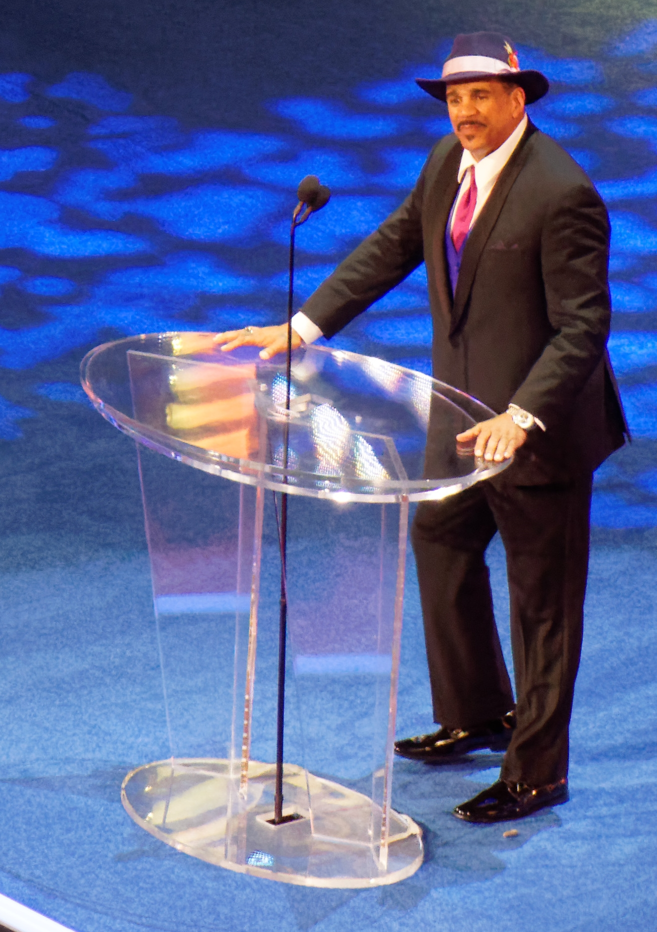 The Godfather at the 2016 WWE Hall of Fame ceremony